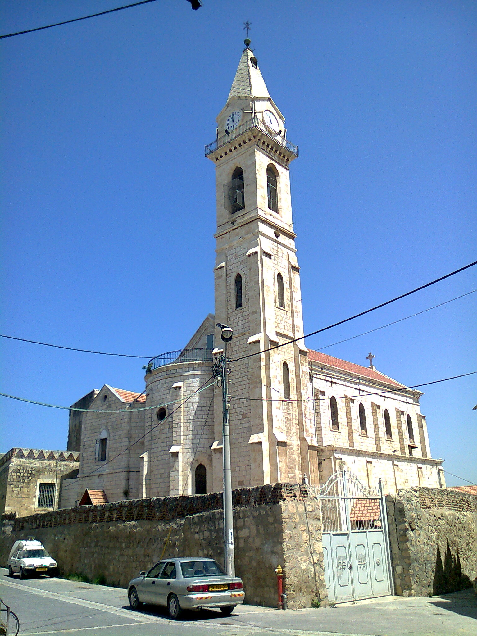 Catholic church of St.Joseph and St.Nicodemus in Ramla, Israel